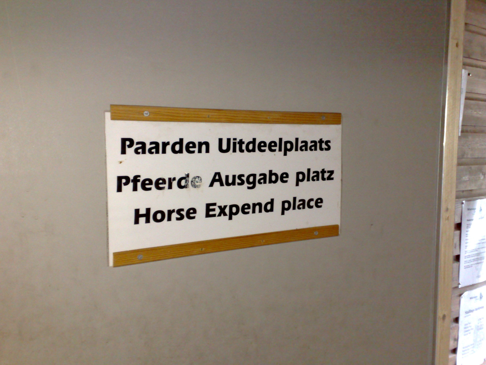 Dunglish, on a stable door in Port Zélande - Note that all three languages have errors, "Paarden Uitdeelplaats" for example should have been "Paardenuitdeelplaats" and is in fact an example of the influence of English on Dutch. The English line is a too literal translation of the German text, in which "distribution" is translated as "Ausgabe". The German line should have been "Pferdeausgabeplatz".